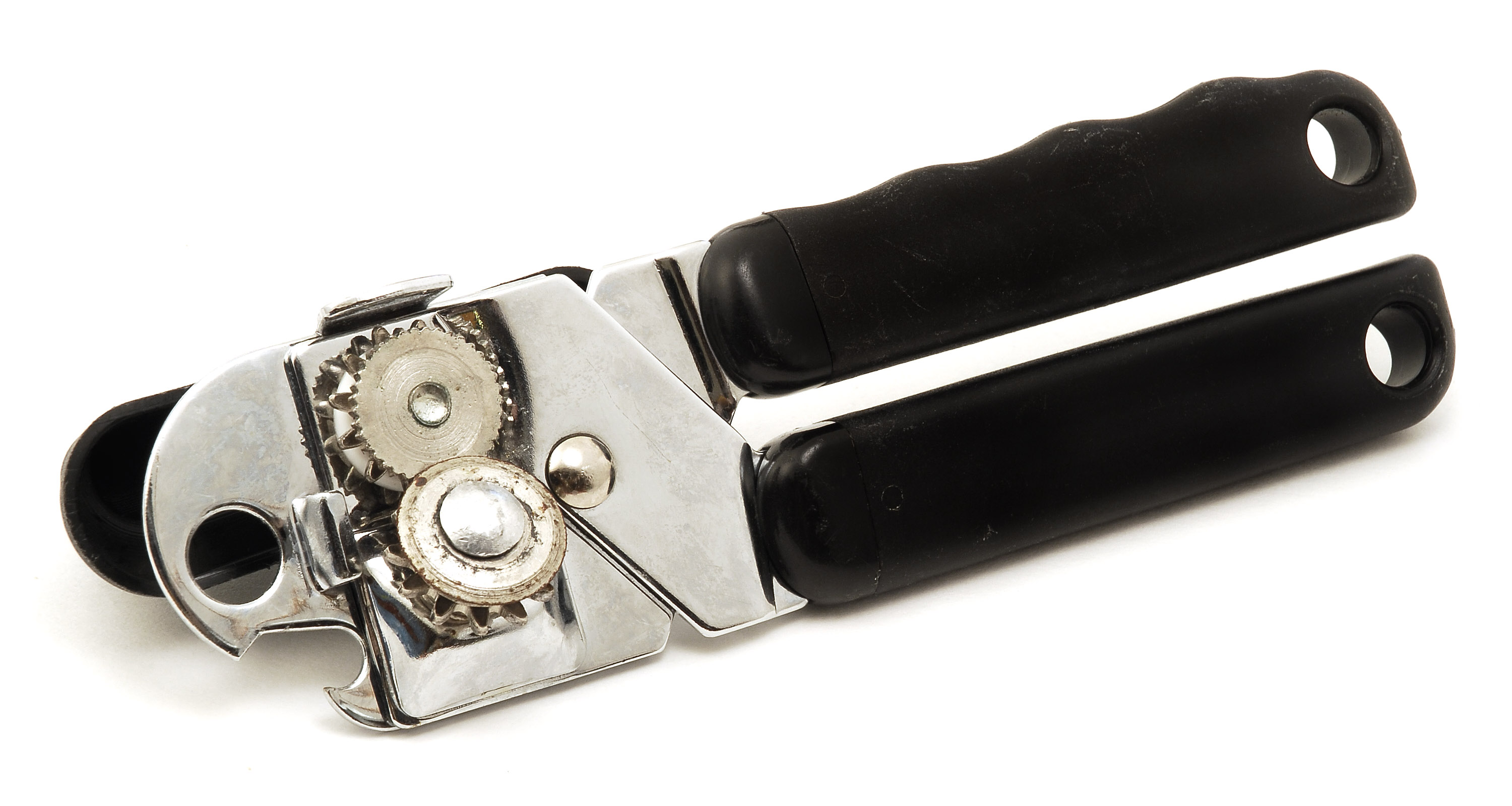 A modern-type can opener.